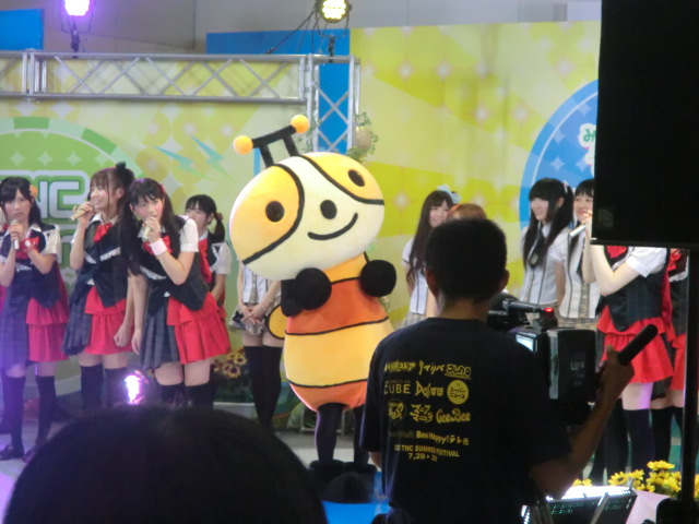 TeleBee (Character of Television Nishinippon Corporation,Television station in Fukuoka prefecture,Japan)